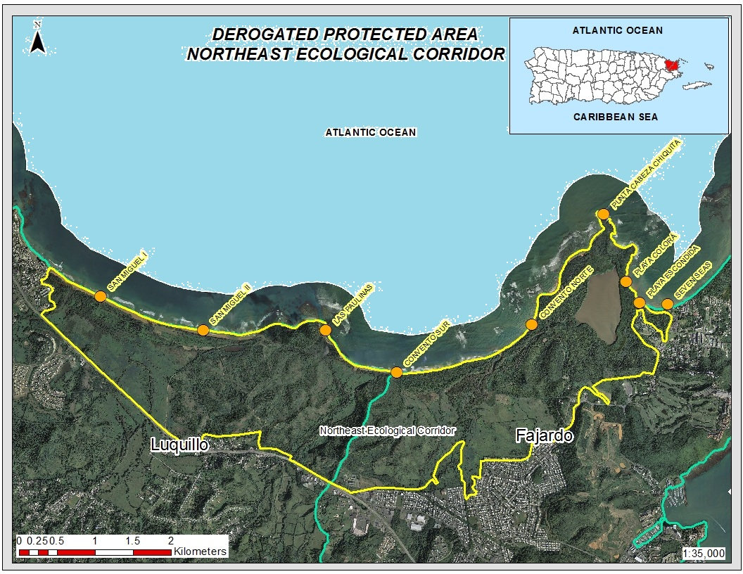 Northeast Ecological Corridor, located between the municipalities of Luquillo and Fajardo in Puerto Rico.